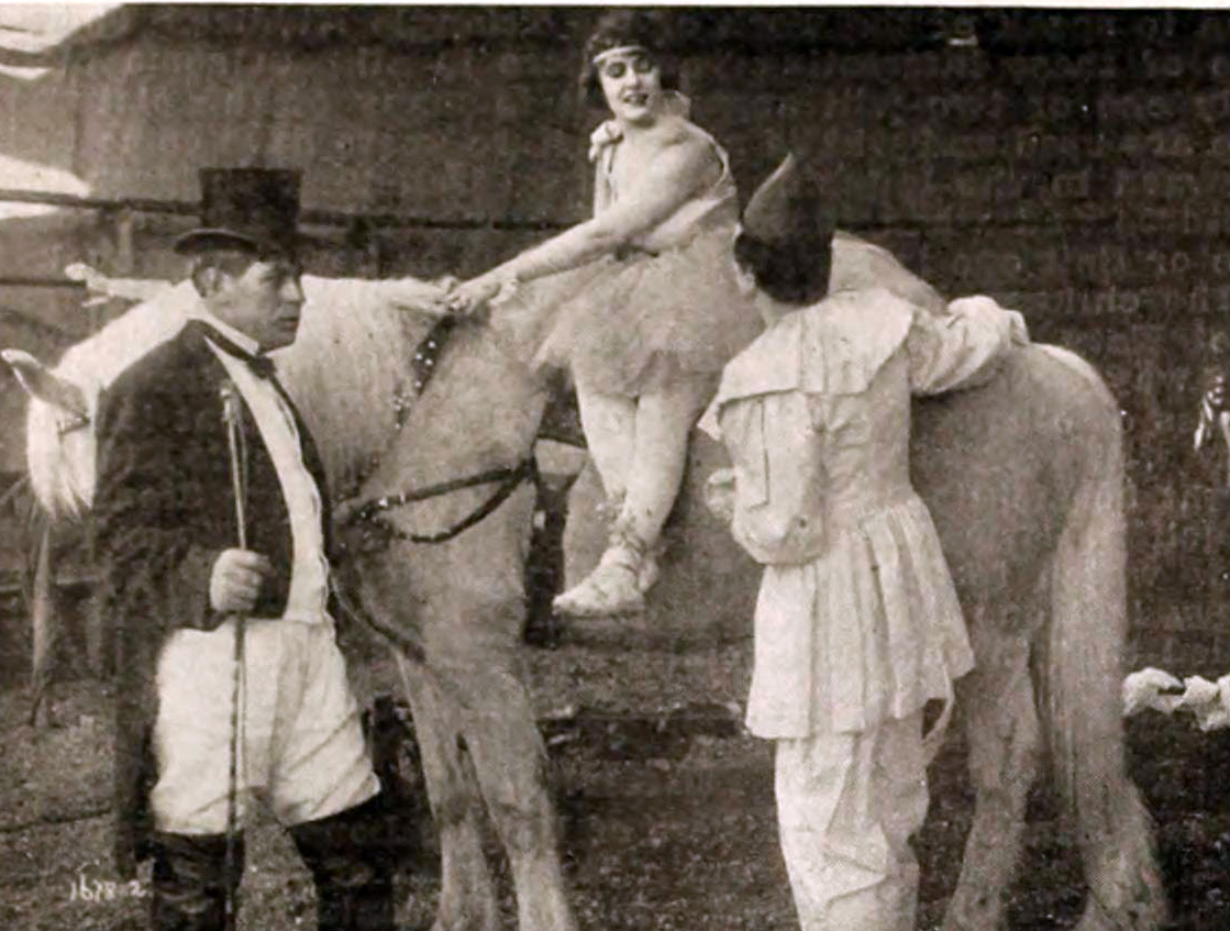 Illustration of an article in The Moving Picture World for the American film serial The Adventures of Peg o' the Ring (1916).